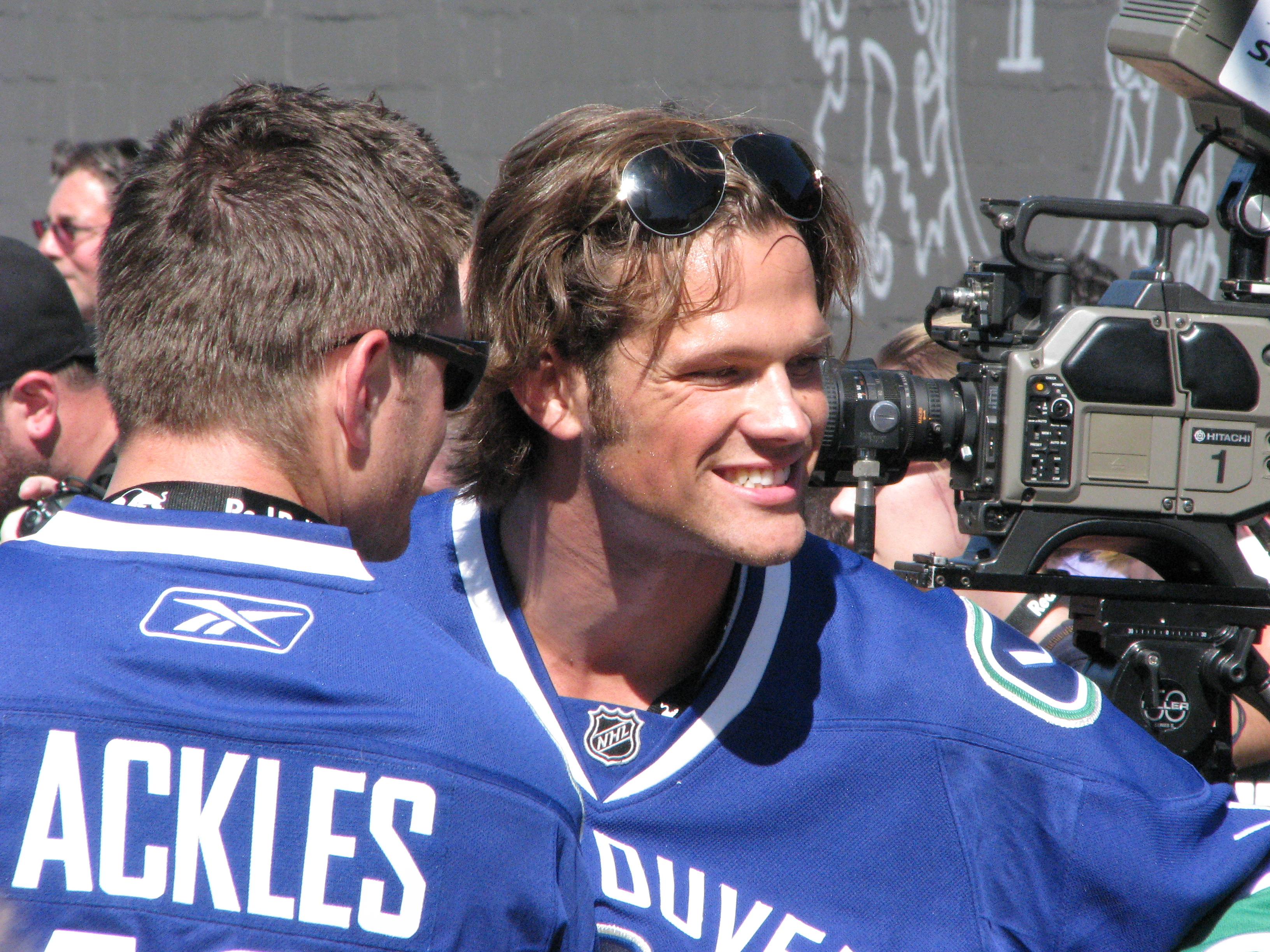 Jensen Ackles and Jared Padalecki at the 2008 Red Bull Soapbox Race